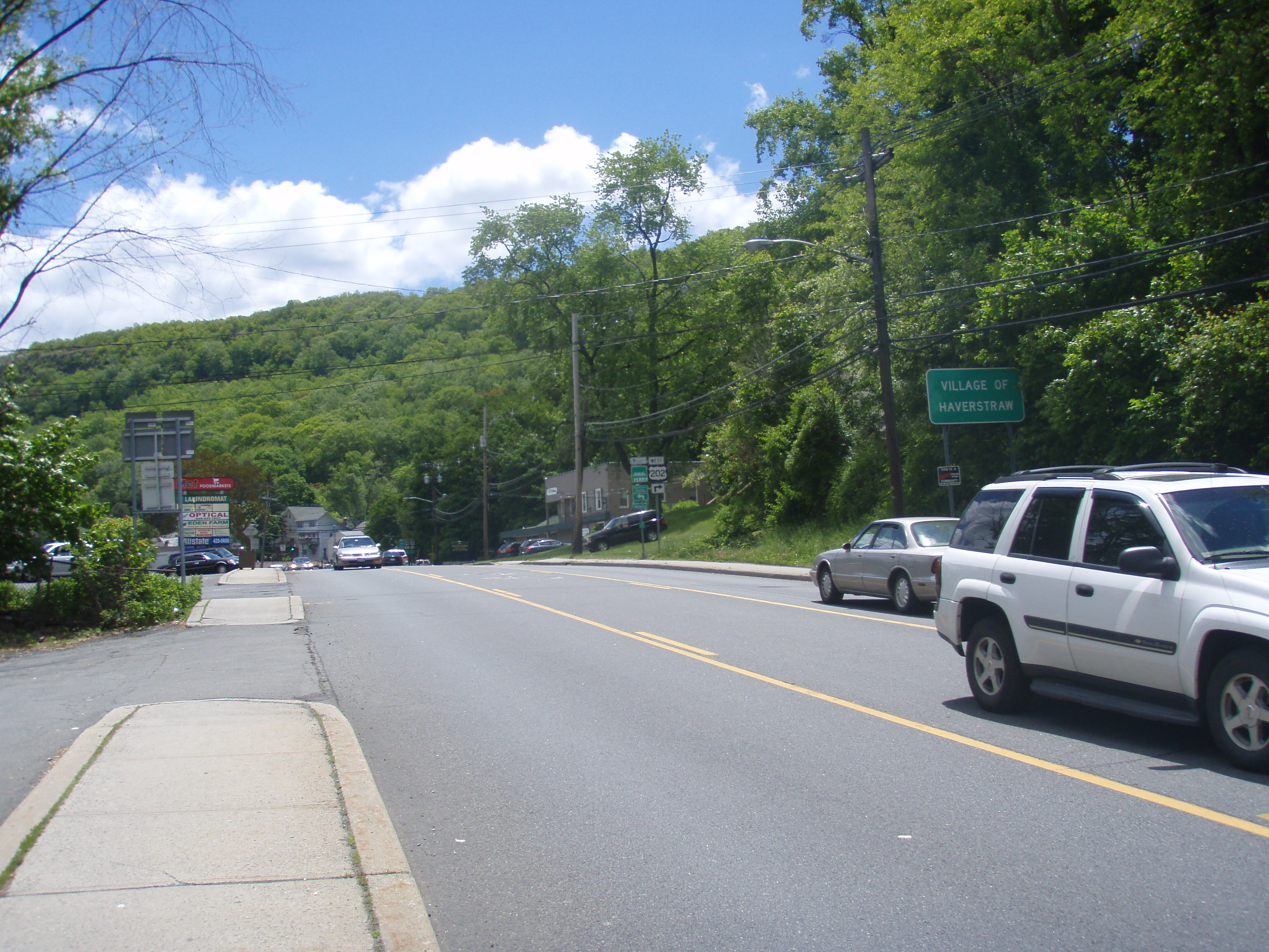 Downtown Haverstraw, New York